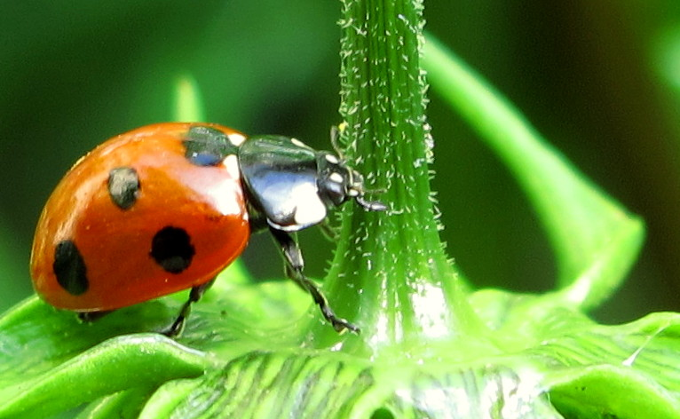 Ladybird feeding on Barrington Street, Limerick